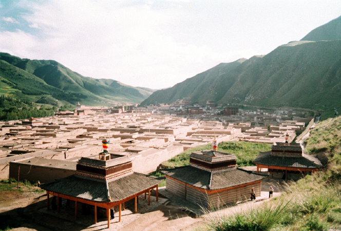 Labrang Monastery, Xiahe, Gansu, China Photo by Christopher M. Cline